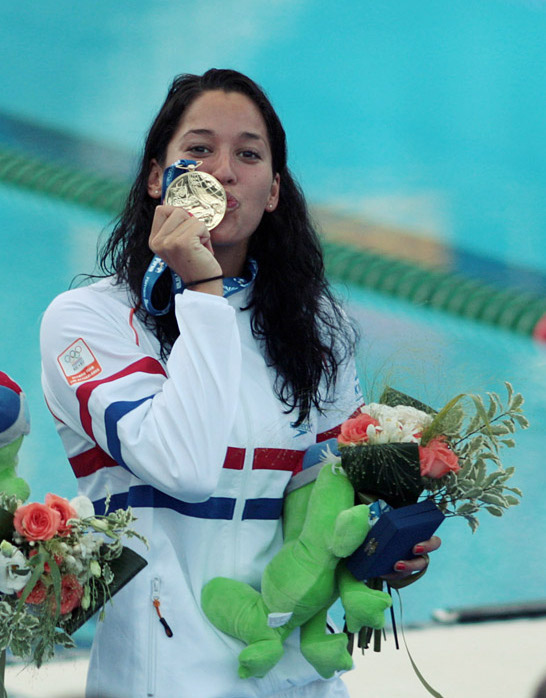 Medalist Ranomi Kromowidjojo during 2009 FINA World Championships, Rome, Italy.